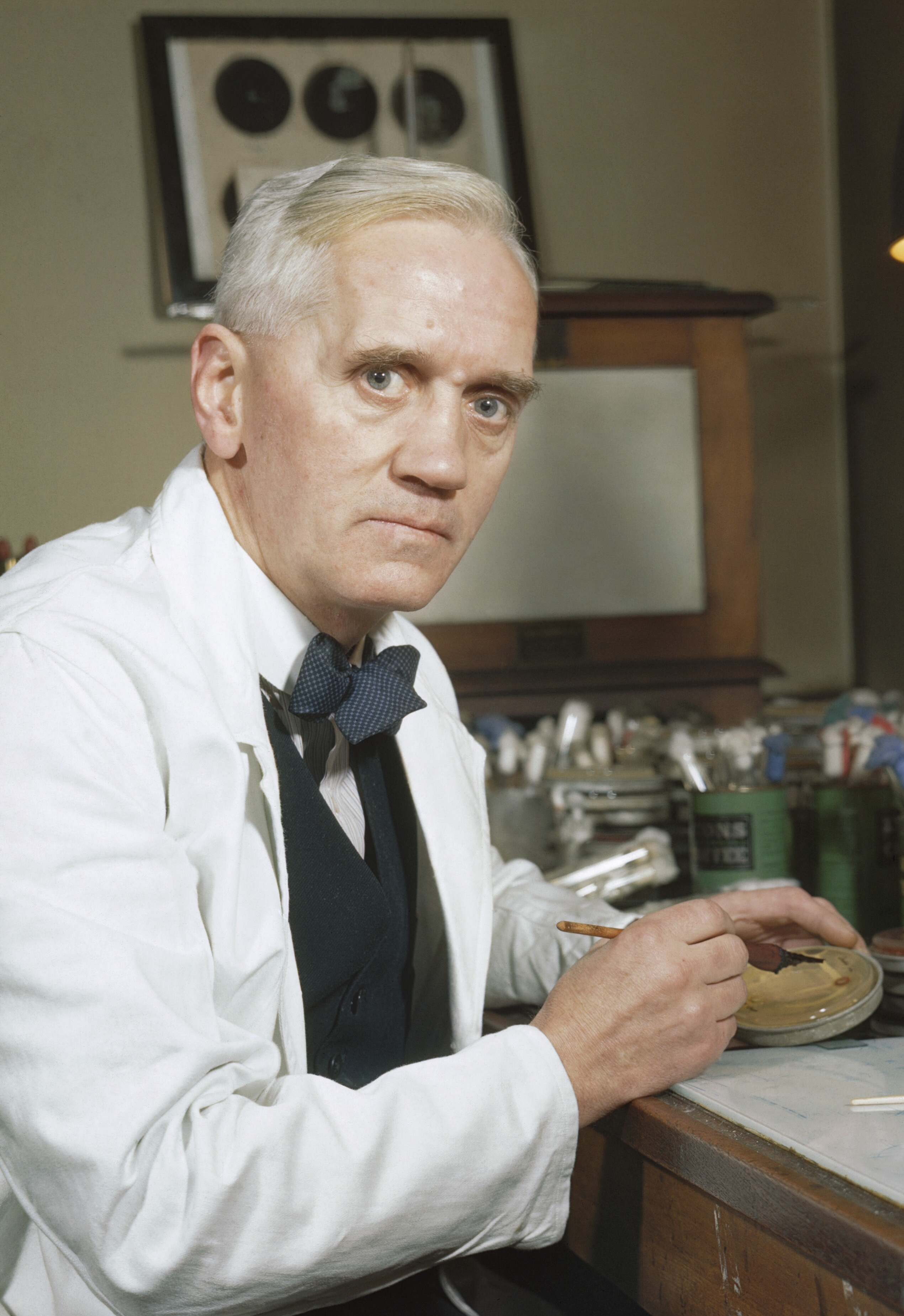 Synthetic Production of Penicillin Professor Alexander Fleming, holder of the Chair of Bacteriology at London University, who first discovered the mould Penicillin Notatum. Here in his laboratory at St Mary's, Paddington, London.